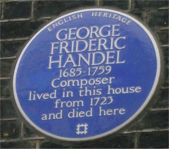 Blue plaque to George Frideric Handel on his house at 25 Brook Street, London, England. Photographed by me 29 September 2006. Oosoom